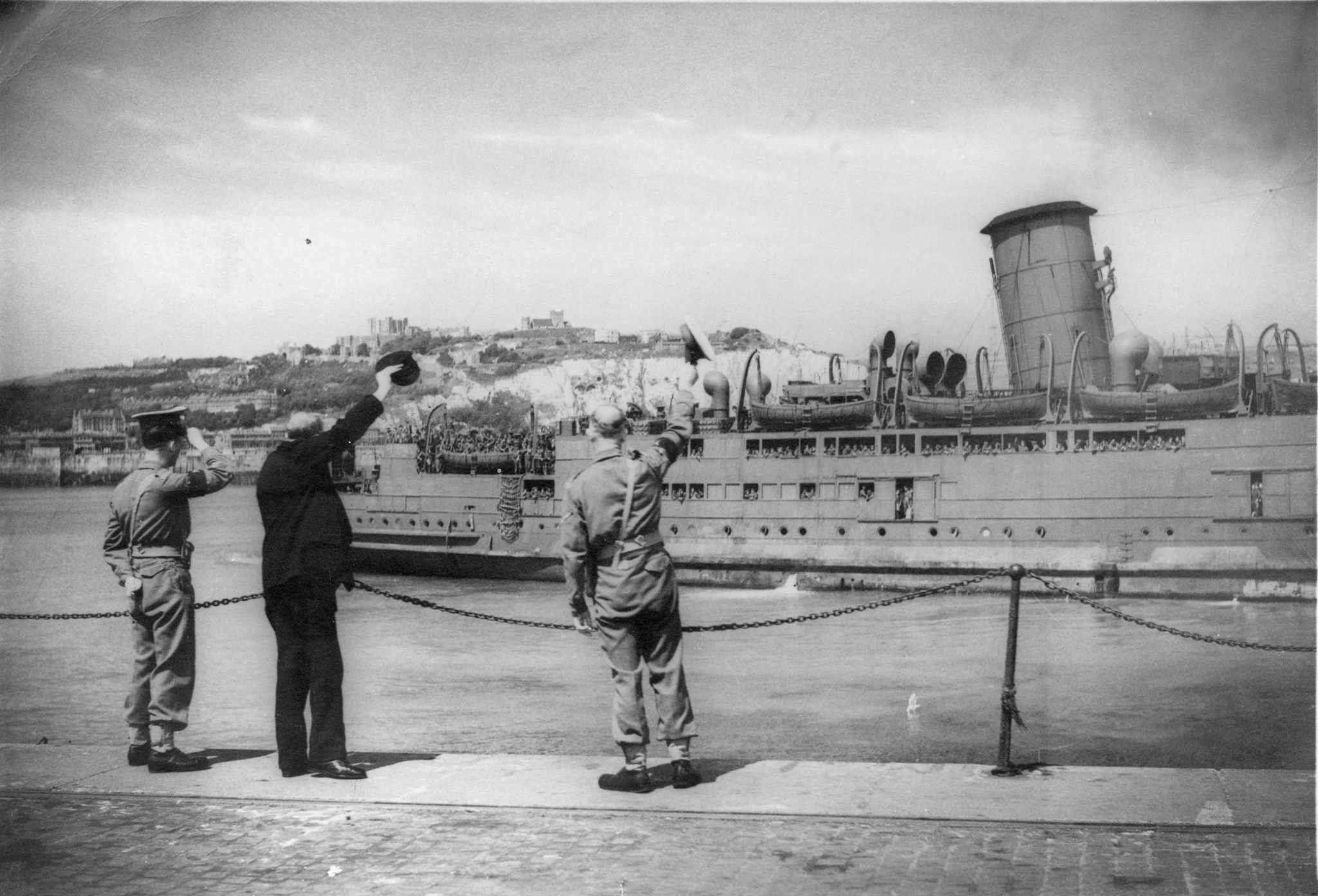 Ben-my-Chree pictured departing Dover.